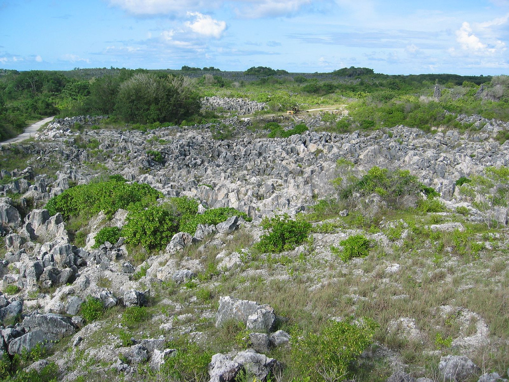 Coral pinacles on the topside of Nauru